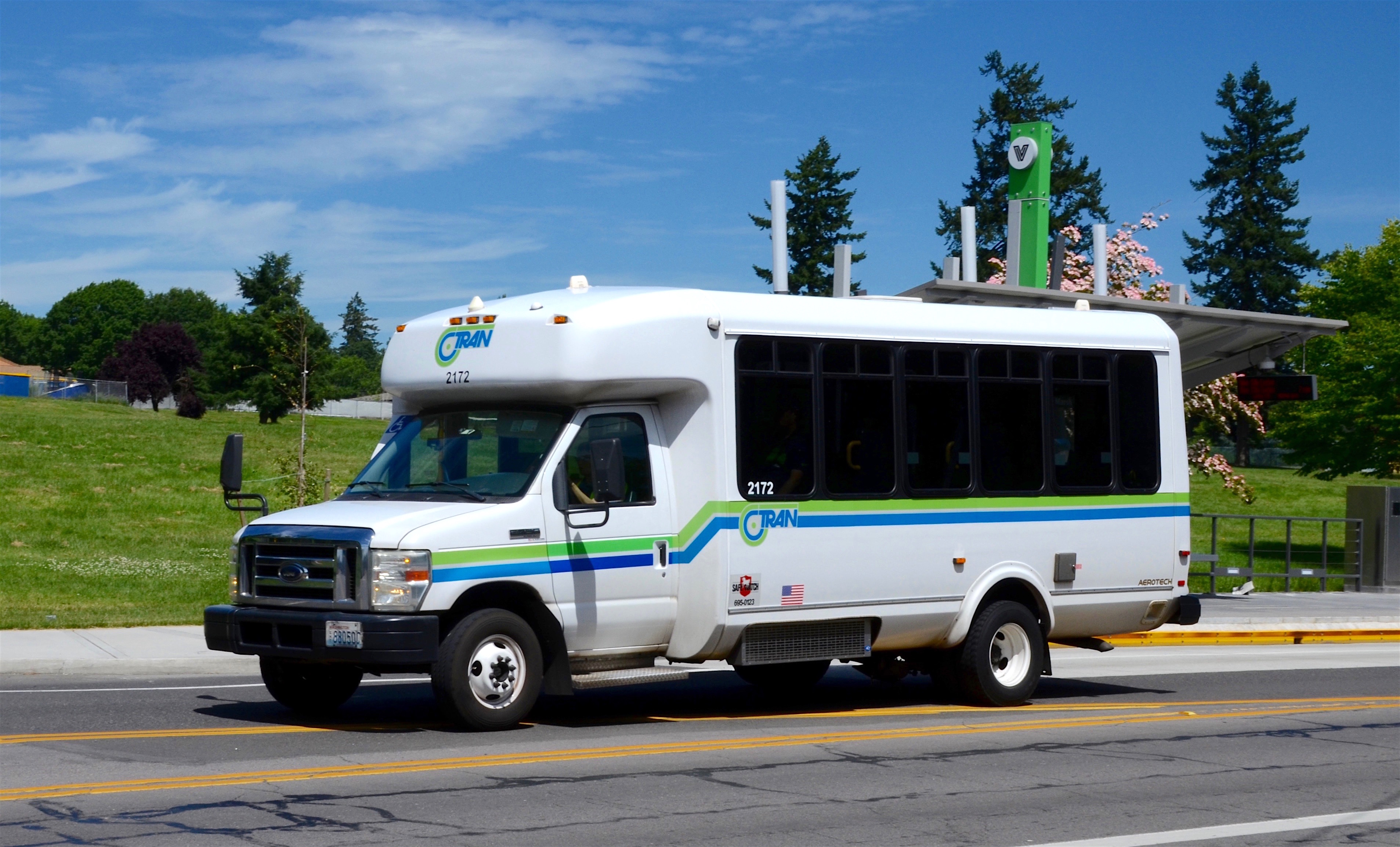 C-Tran paratransit van 2172, a circa 2008 Ford E-series minibus in use on C-Tran's "C-Van" service in 2017. No. 2172 is still wearing C-Tran's old paint scheme, dating from the 1980s. It is westbound on E. McLoughlin Blvd., about to stop at the Luepke Senior Center.